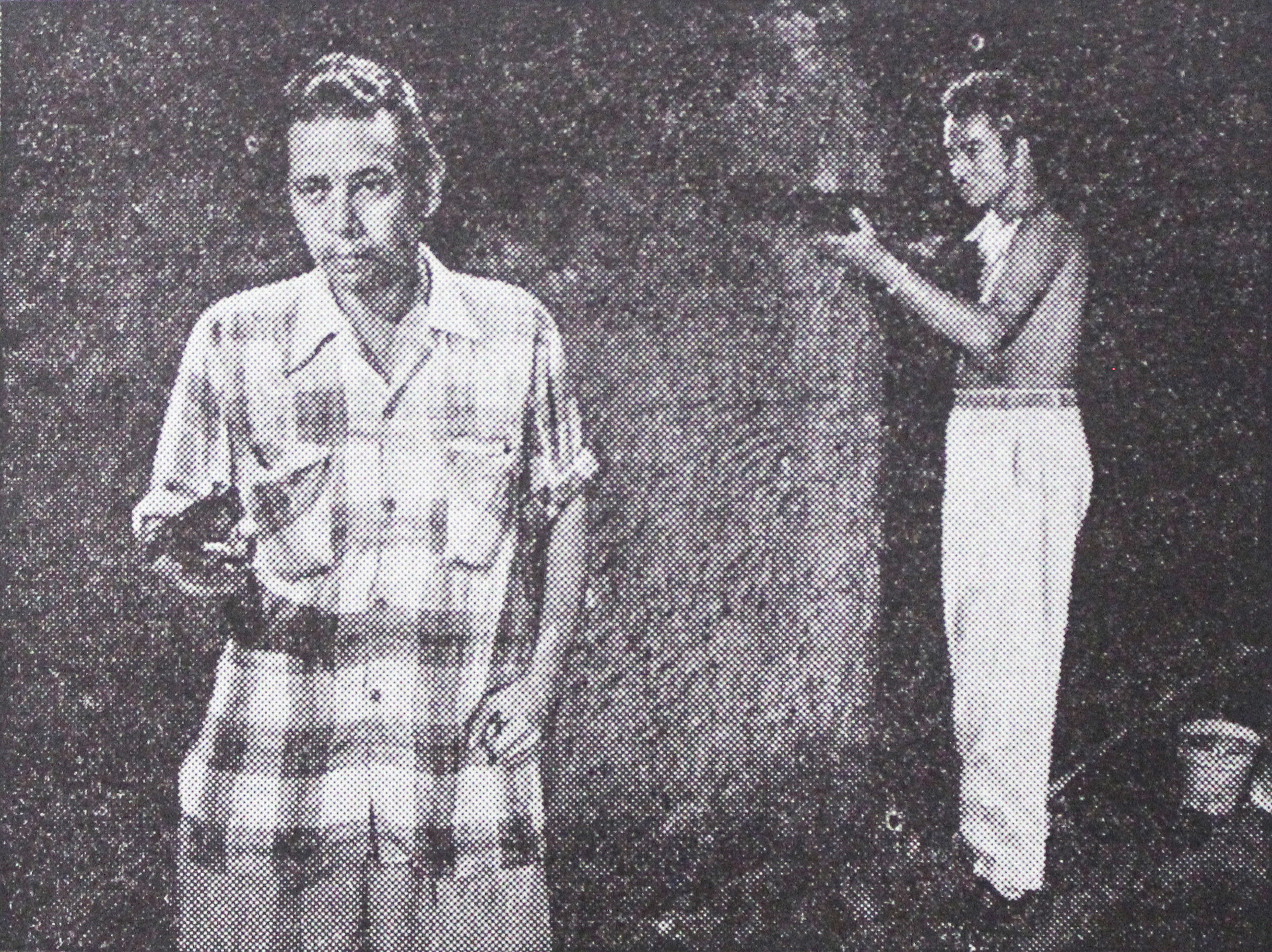 Ali Yugo in a scene from Sri Asih